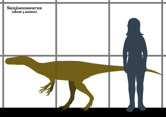 Small diagram showing the size of the theropod dinosaur Sanjuansaurus, compared to a human.